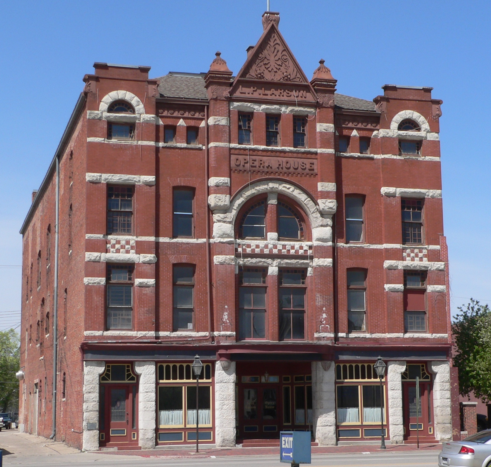 Love-Larson Opera House in Fremont, Nebraska; seen from the southeast. The building was constructed in 1888, and is listed in the National Register of Historic Places.